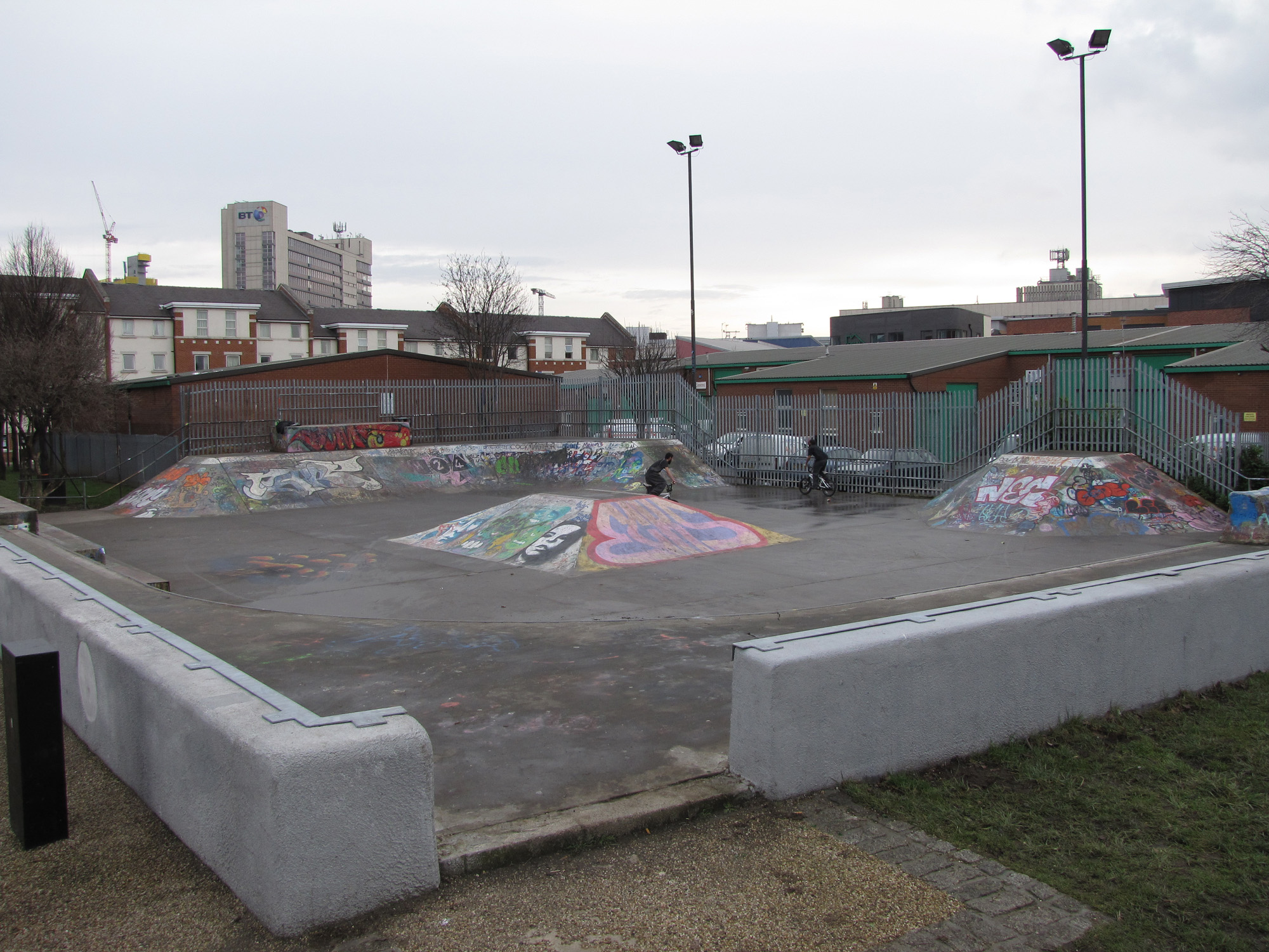 The skatepark at Devonshire Green, a small park in Sheffield City Centre.